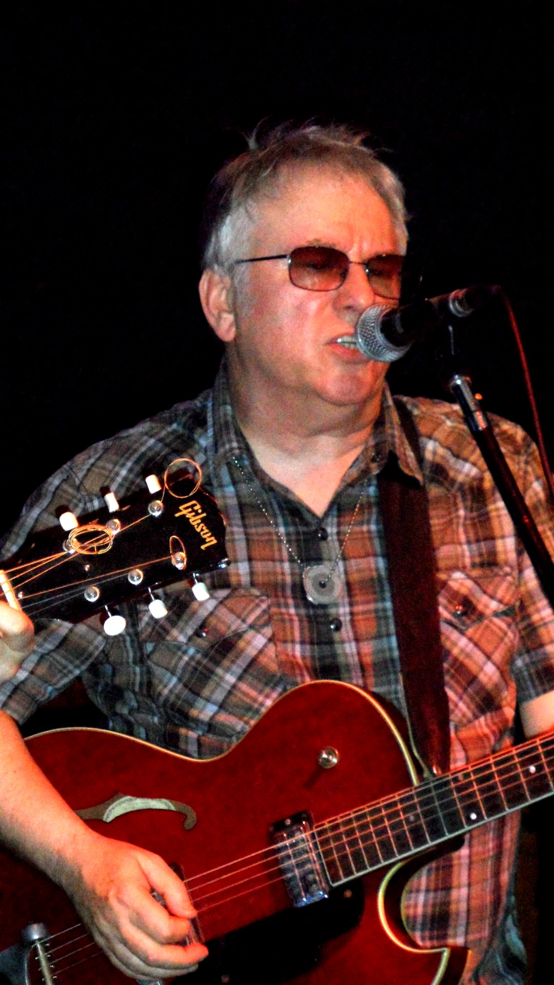 Wreckless Eric performing live at Schuba's tavern in Chicago, 5/10/2013